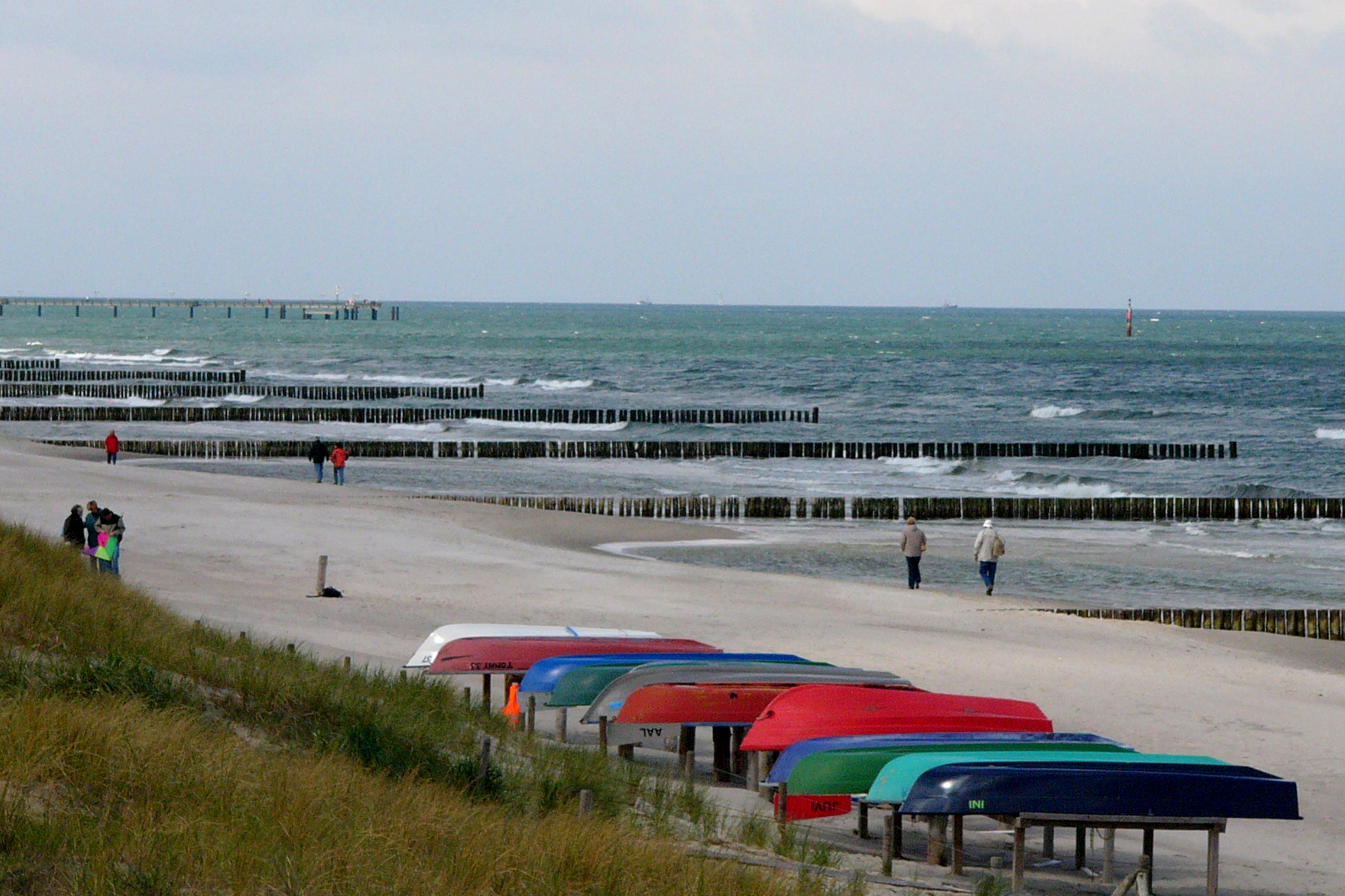 Graal-Müritz is a town on the German coast of the Baltic Sea in Mecklenburg-Vorpommern, Germany. View to the beach.